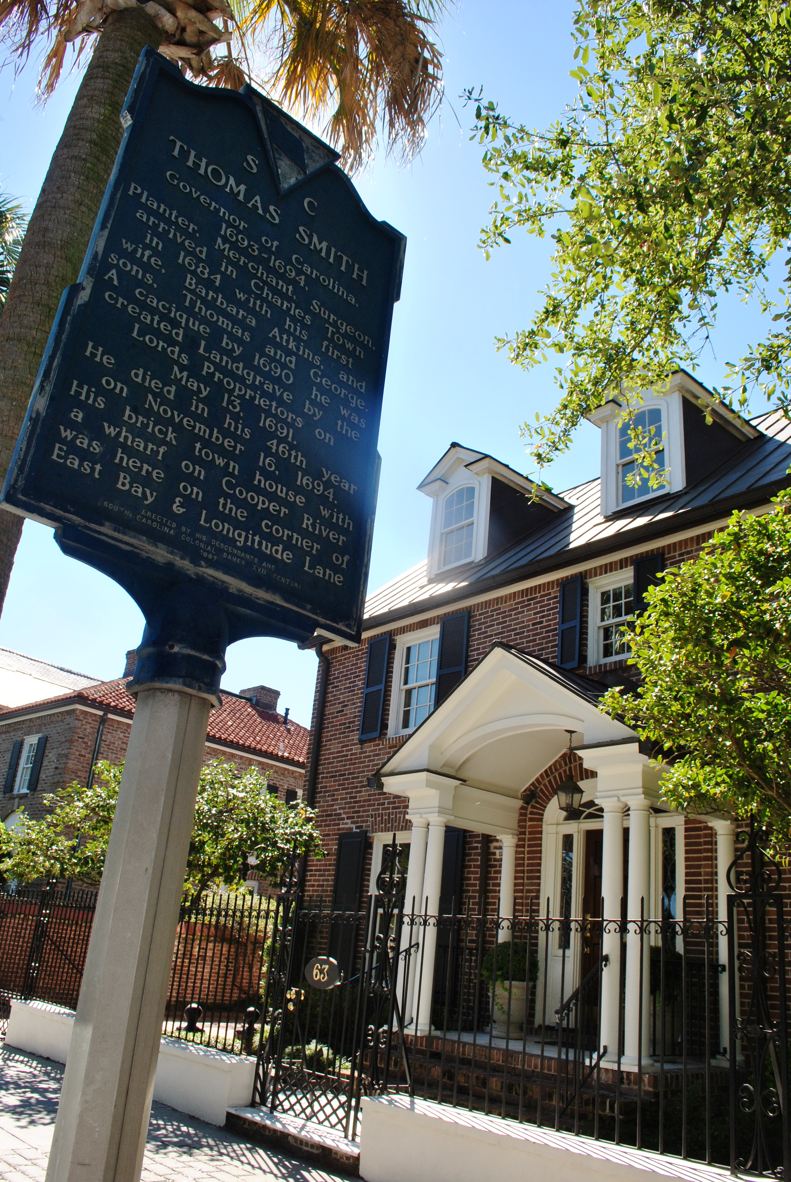 Thomas Smith, East Bay Street